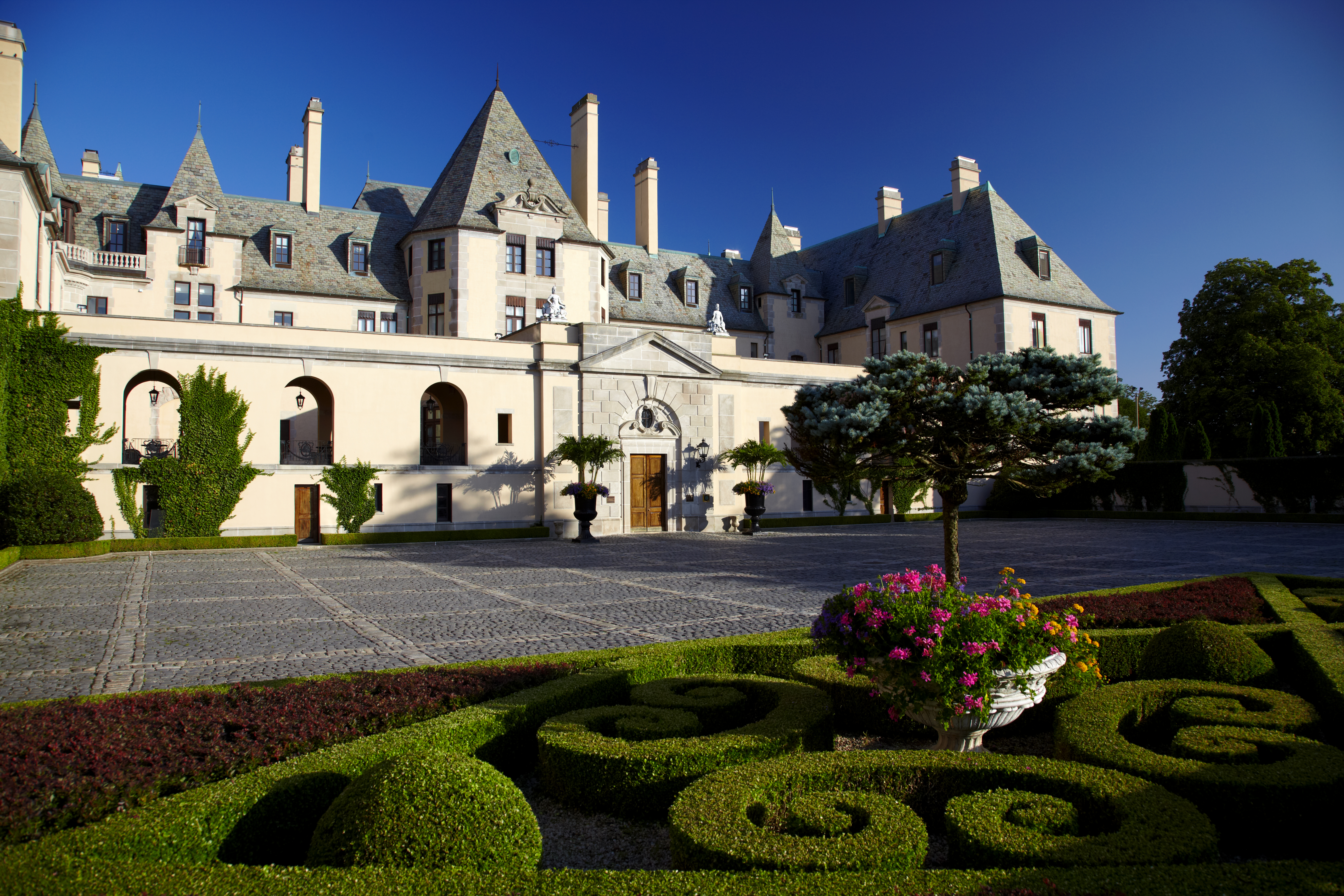 Photograph by Phillip Ennis Photography